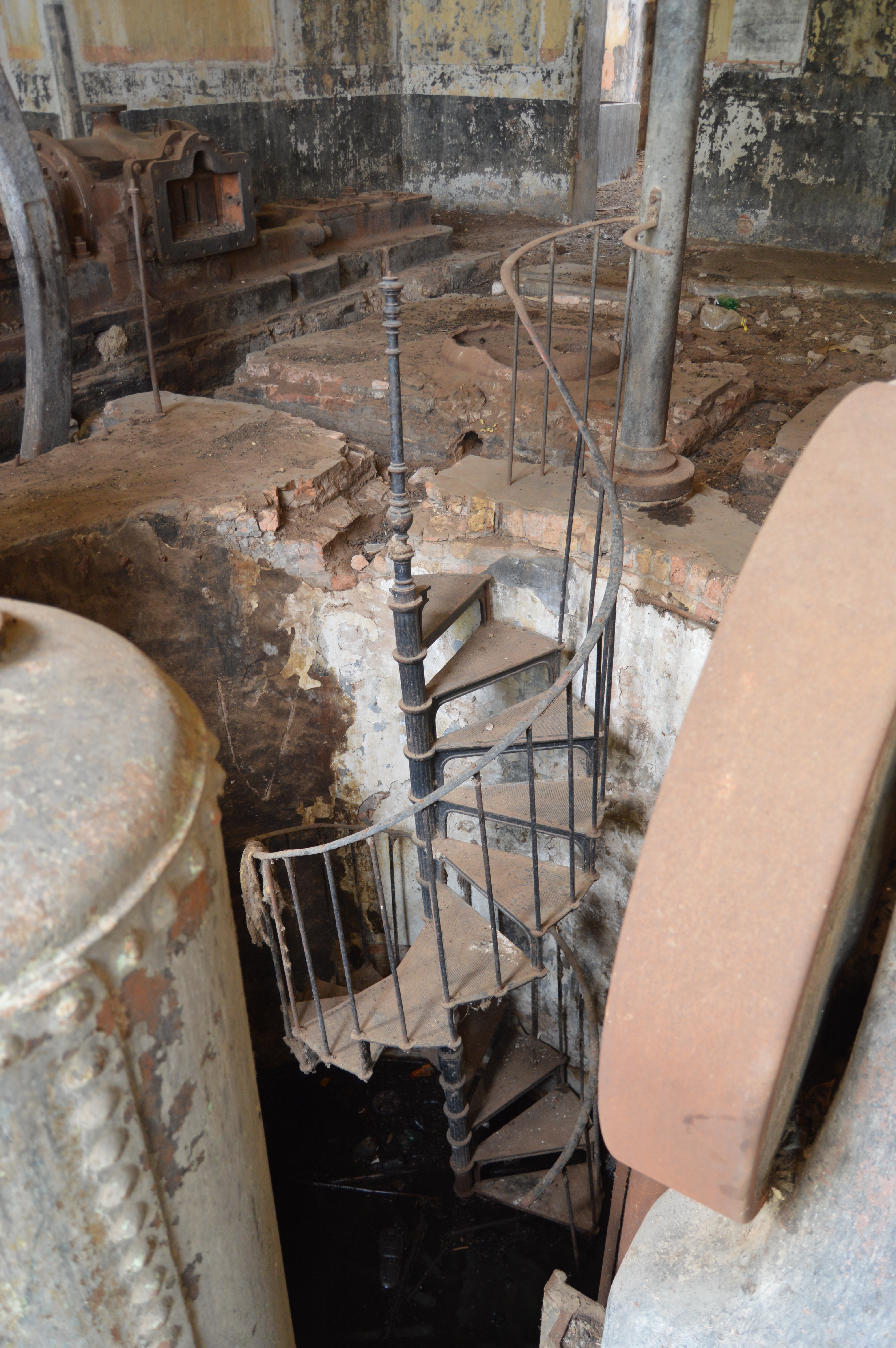 Ancient Mbakhana Water Factory, nearby Saint-Louis, Senegal; oldest sub-saharian african existing steam engines.